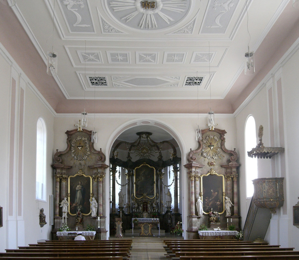 Inside view of the church St. Barbara, Stuttgart-Hofen, Germany